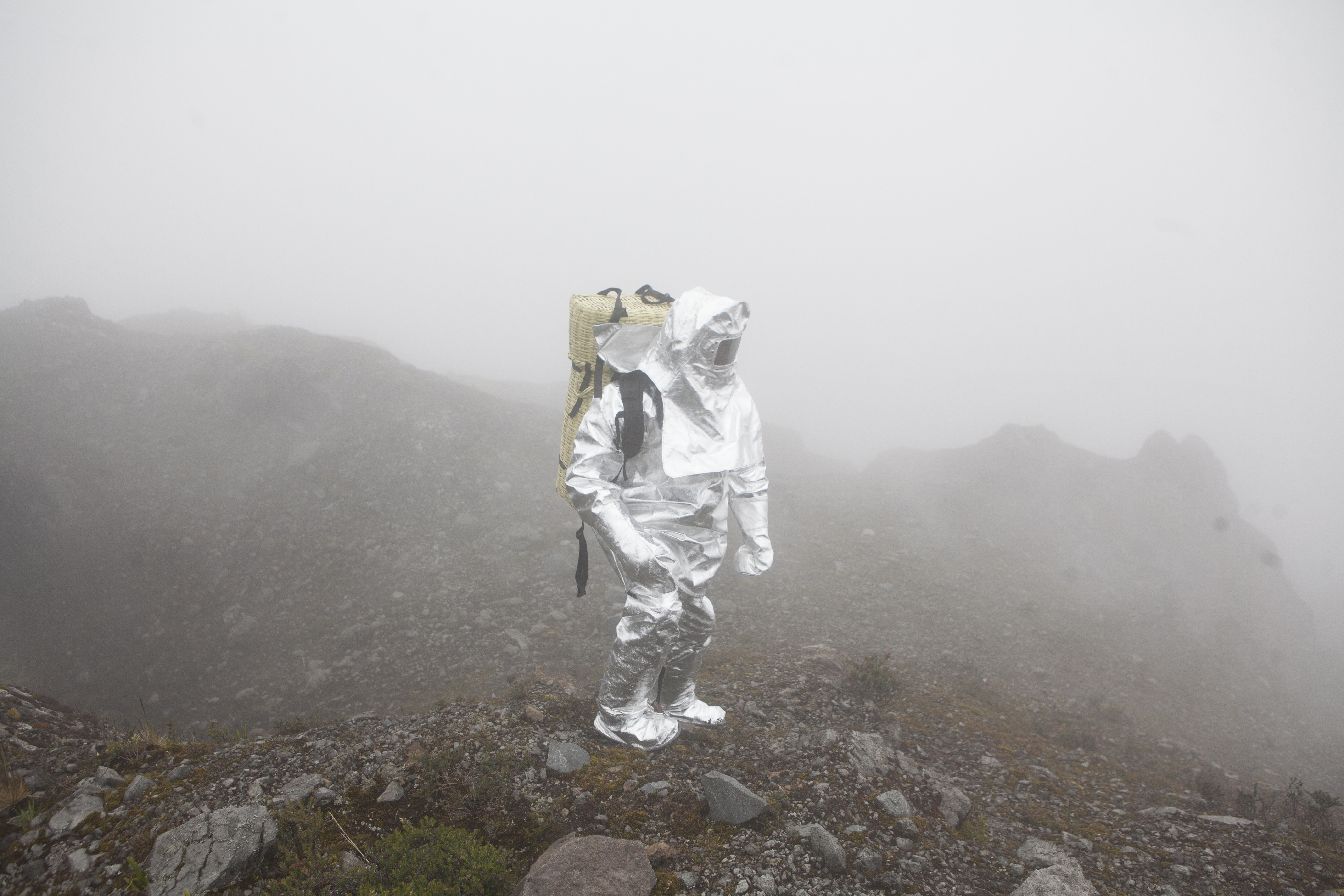 Poema Volcanico. 12th Cuenca Biennial, Cuenca, Ecuador, 2014.